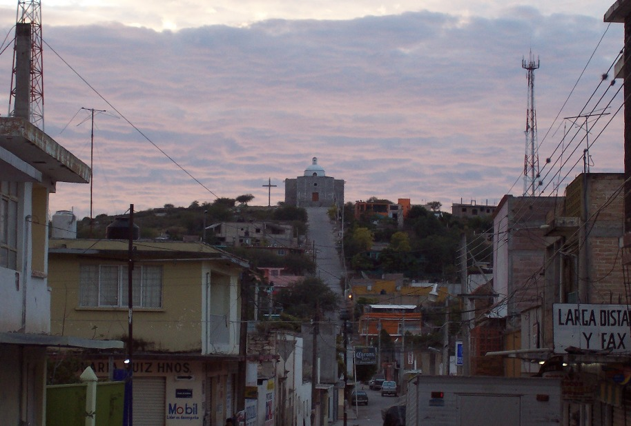 Church of Santa Cruz on hilltop — in the town of Cerritos, Northeastern Mexico. Located in Cerritos municipality, state of San Luis Potosí.